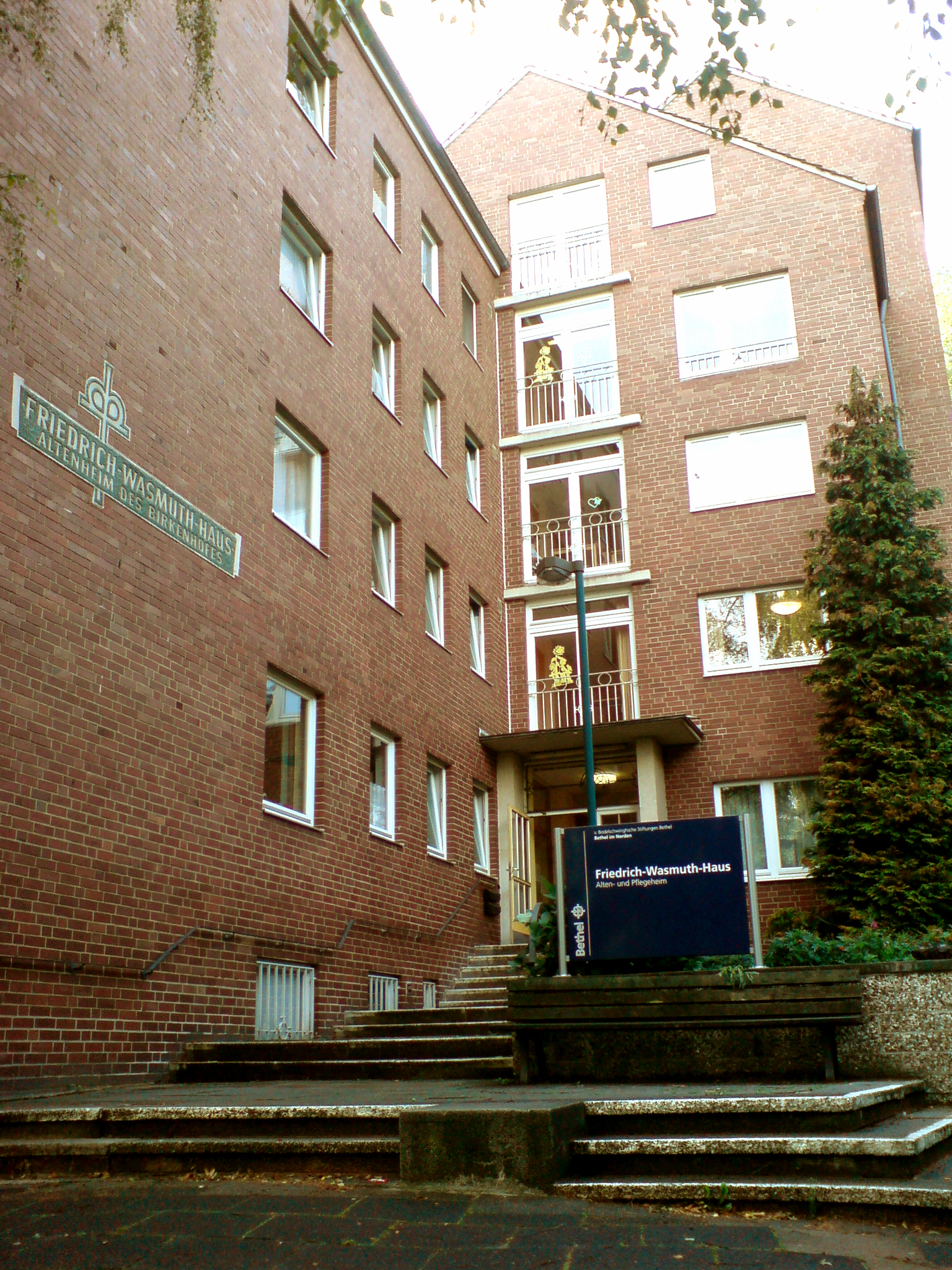 The Friedrich-Wasmuth-Haus in Hanover